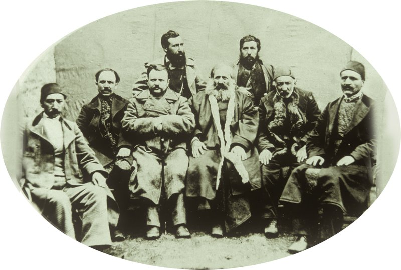 Van, December 1879: Khrimian and local Armenian notables. Seated (from left): Karapet Isajanian, Mkrtitch Marutian, Kerovbe Guyumchian, Father Mkrtich Khrimian, Gevorg bey Galdjian, Harutyun Terzibashian. Standing (from left): Sedrak Tevkants, Father Garegin Servandztiants (Source: Michel Paboudjian collection, Paris)